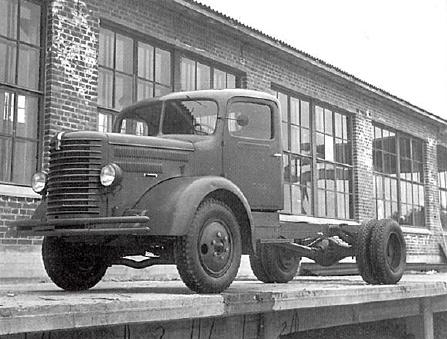 Sisu S-22 K produced by Yhteissisu (later VAT).